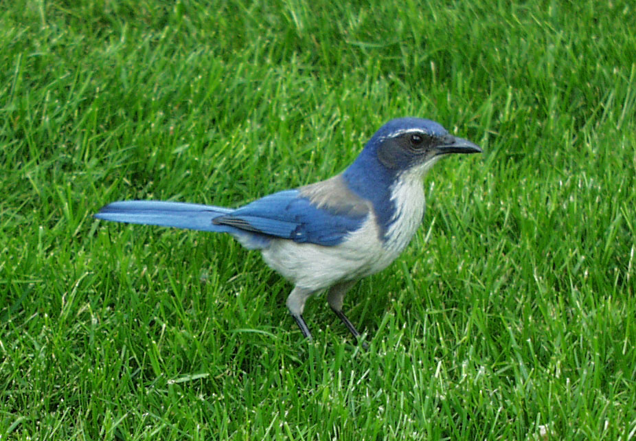 Western Scrub Jay photographed in Aloha, Oregon - May 2000